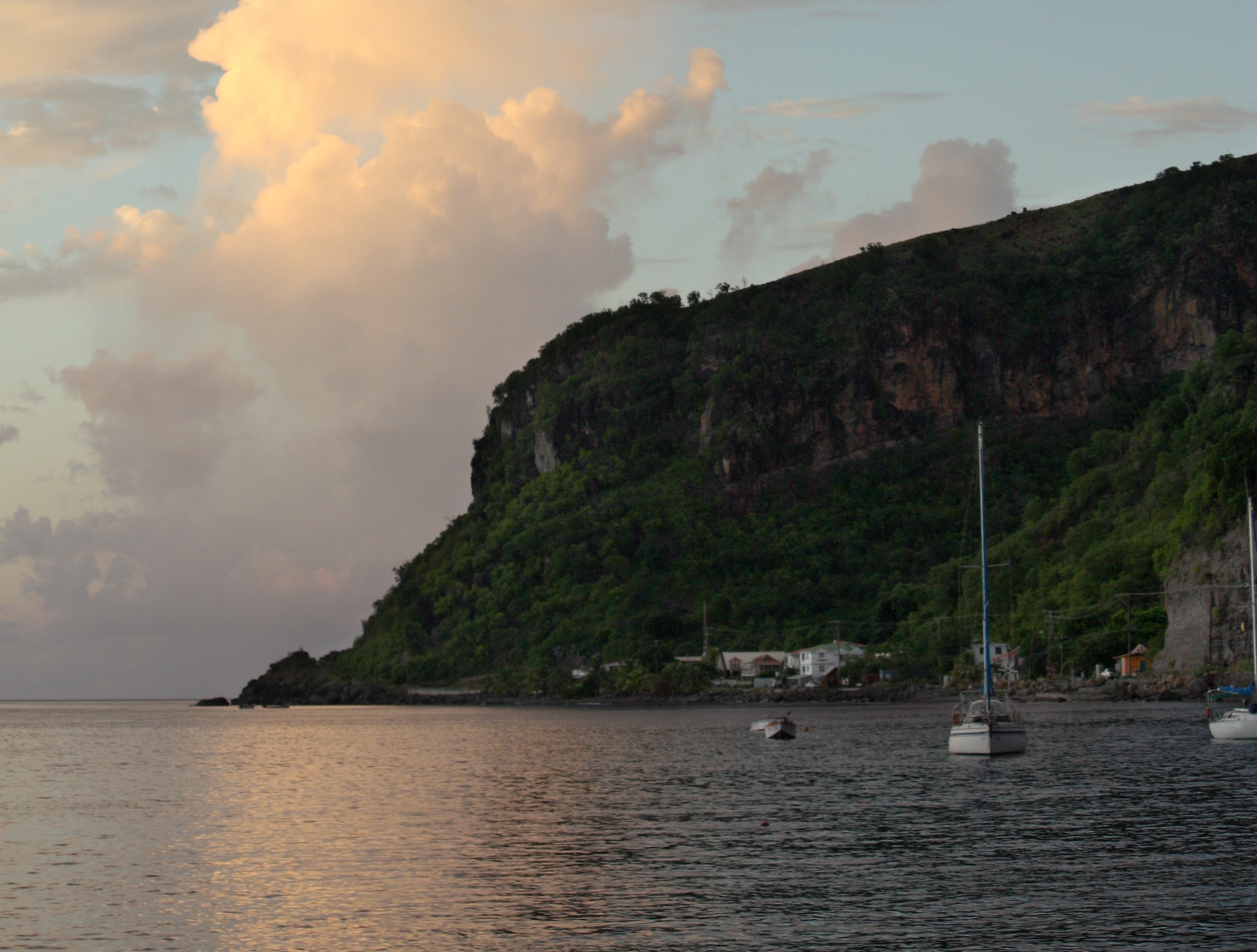 View north across Batalie Bay, Dominica to Coulibistrie, at sunset.